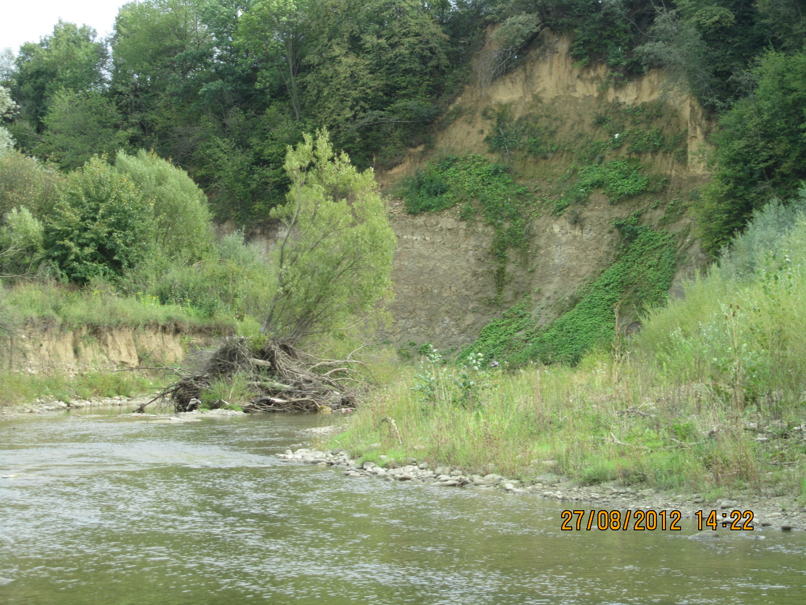 річка Луква біля села Комарів